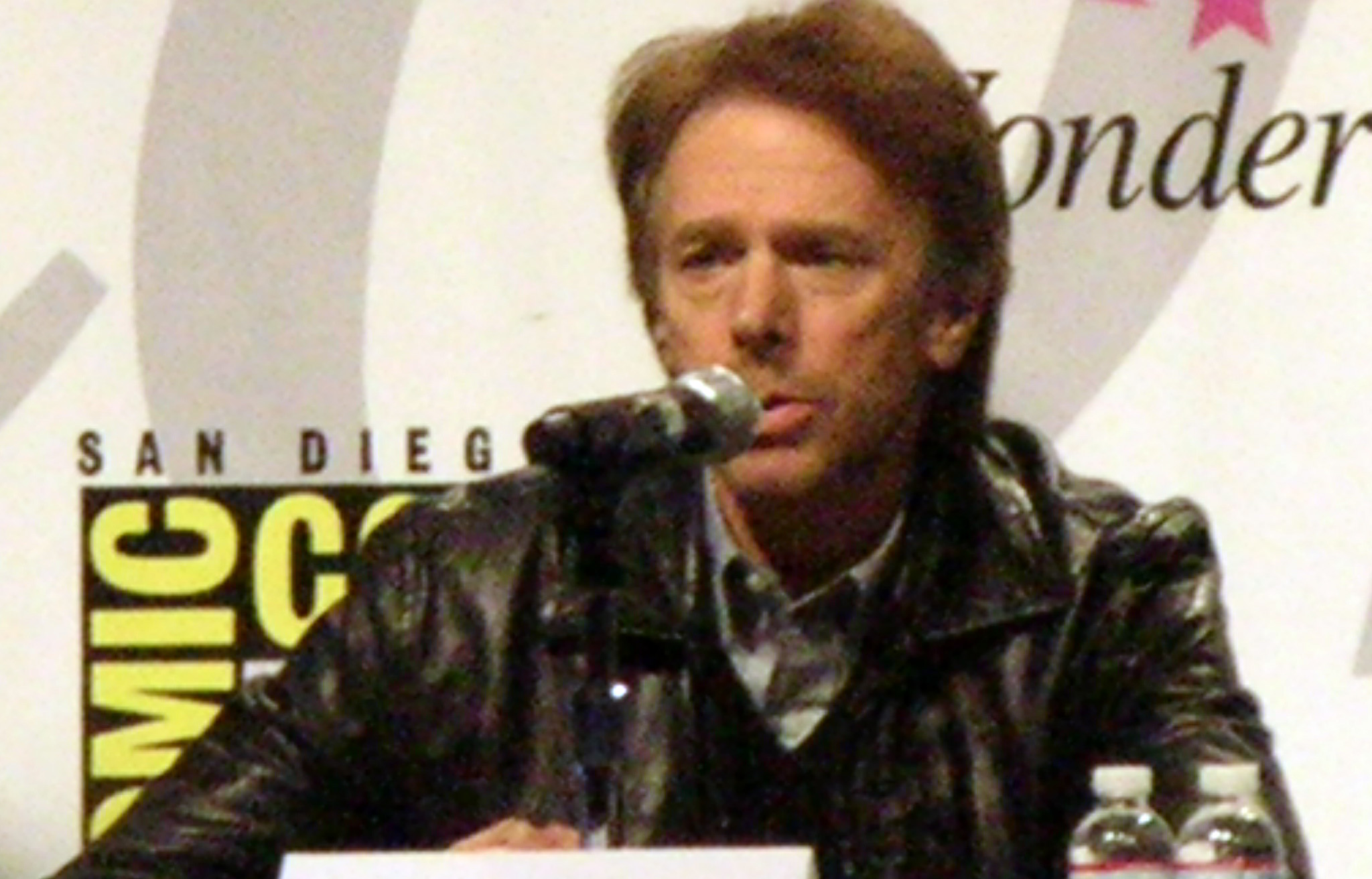 Producer Jerry Bruckheimer discusses Prince of Persia: The Sands of Time, at a panel promoting the film at WonderCon 2010.